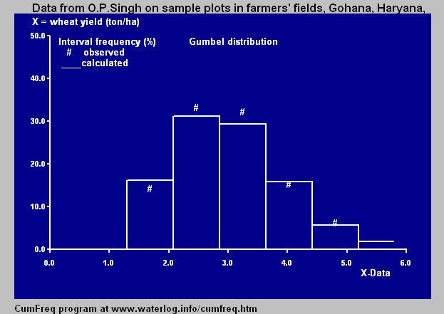 Histogram of yield of wheat. Data from O.P.Singh on sample plot data in farmers' fields, Gohana, Haryana, India